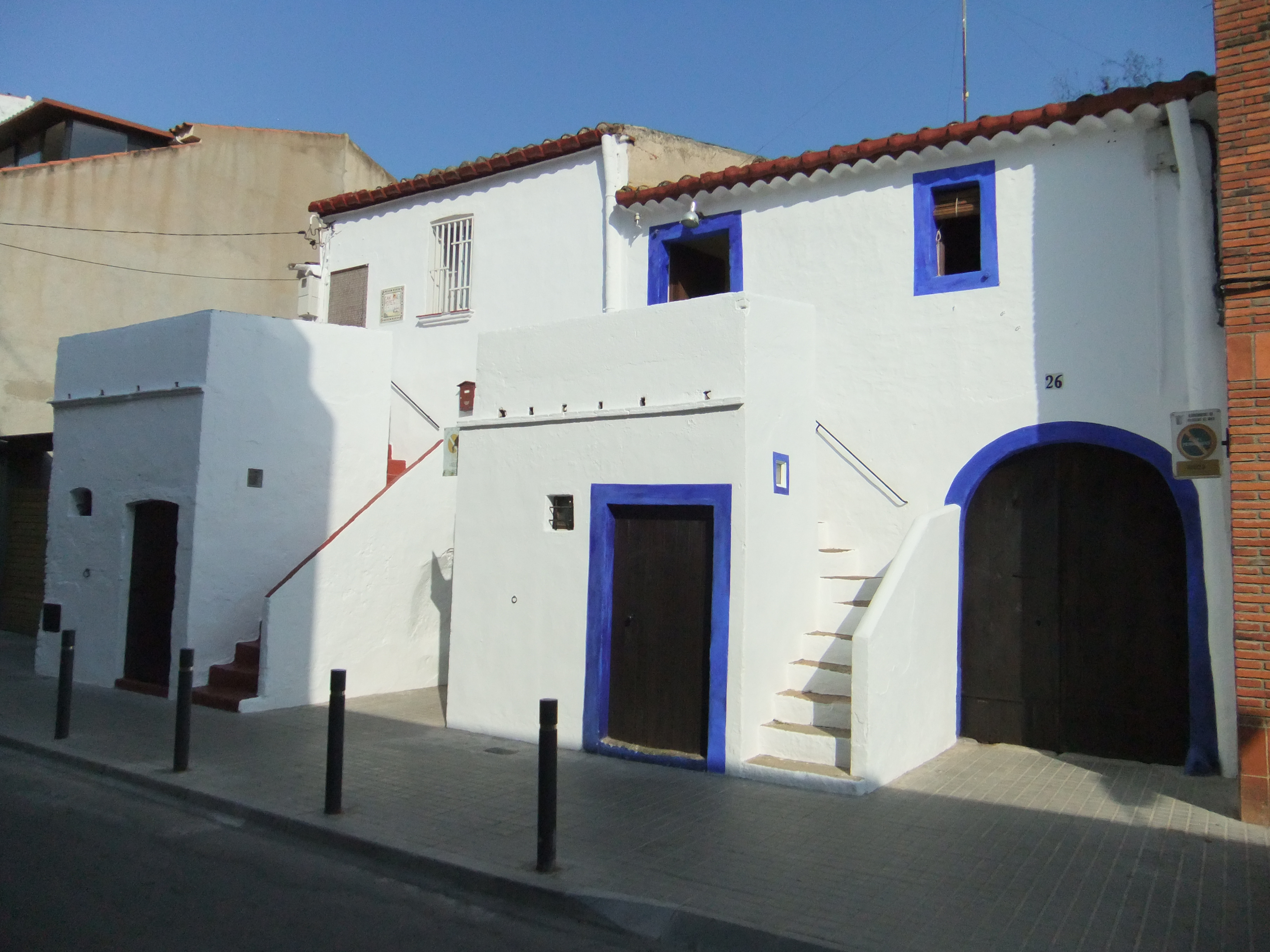 Fishermen houses of XVIII century in St. Francesc street in Vilassar de Mar.